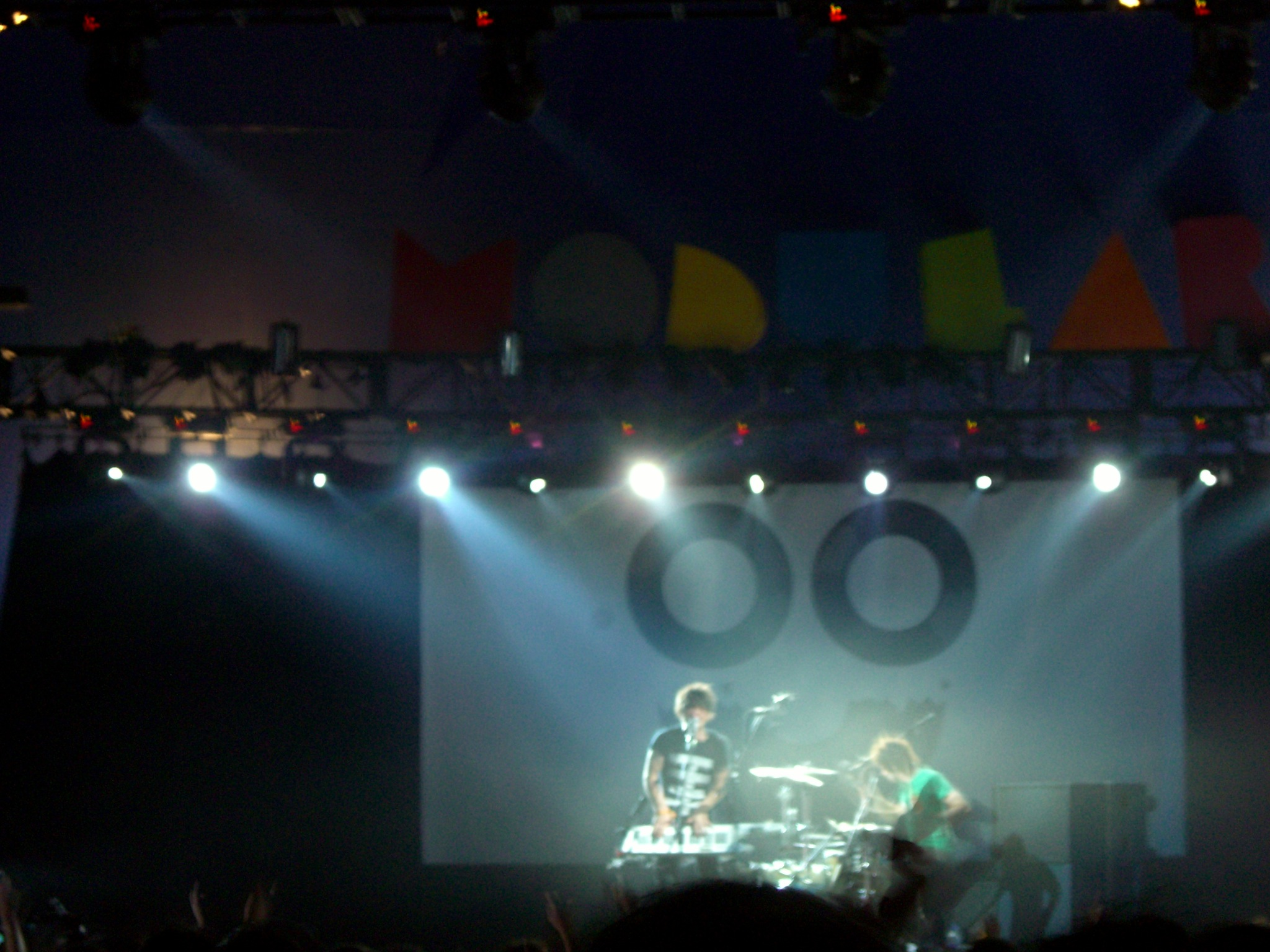 16th June 2007